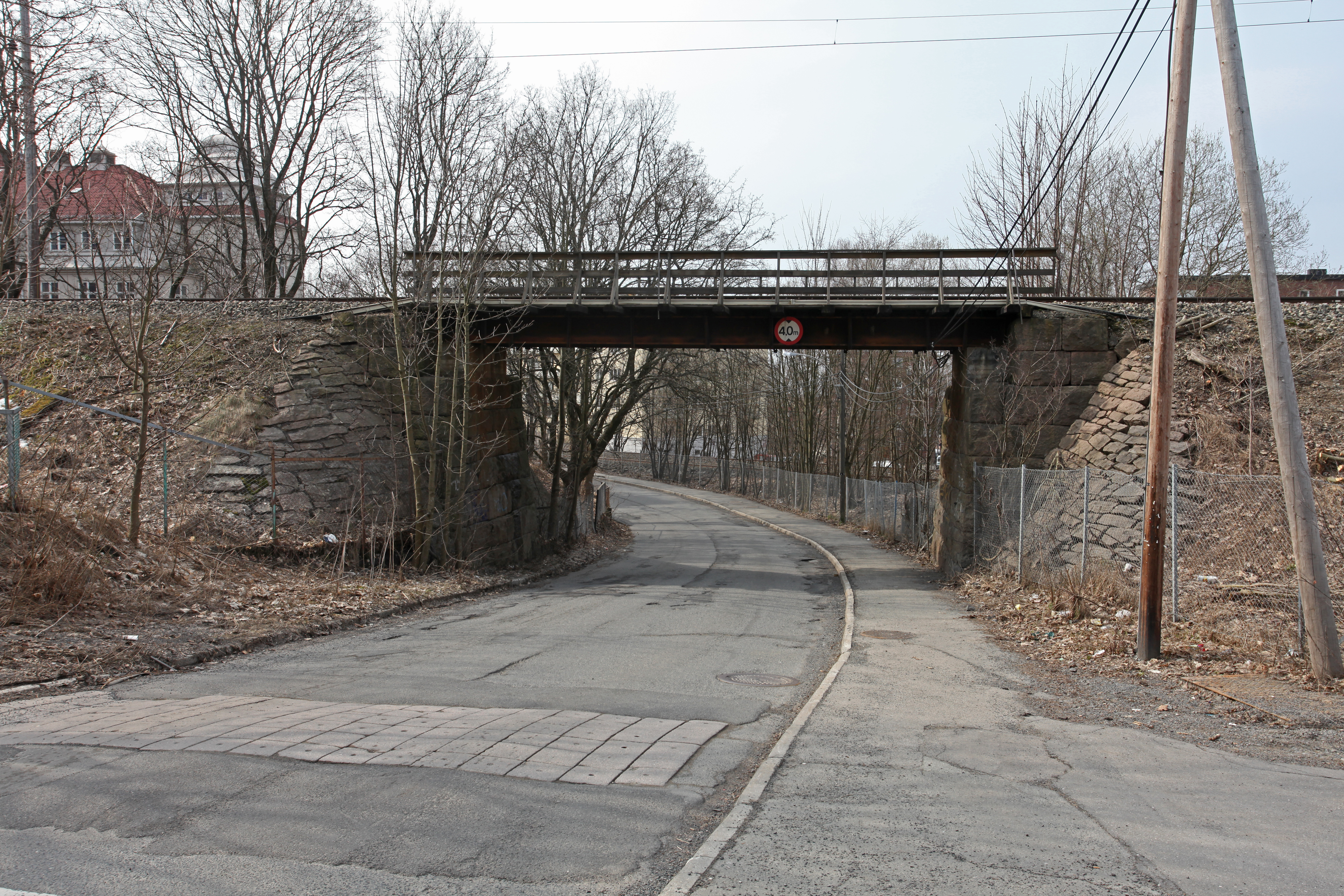 Picture of Sinsenveien (Oslo - Norway)